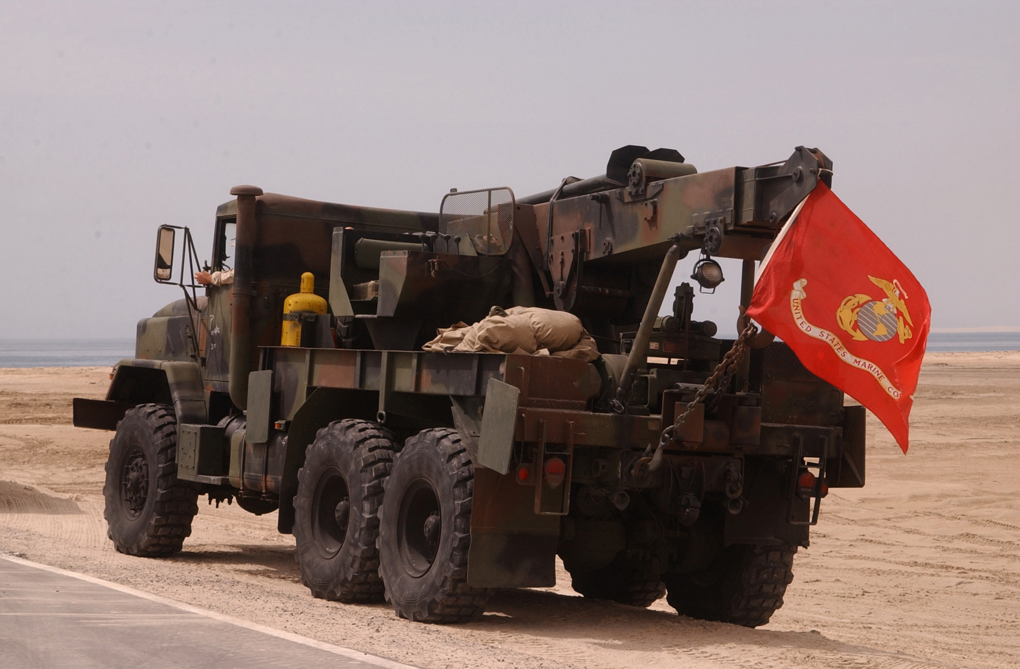 A M936A1 tow truck waits at the beach to transit to As Sayliyah Army base in Qatar for the 13th Marine Expeditionary Units (Special Operations Capable) vehicle and equipment wash down.